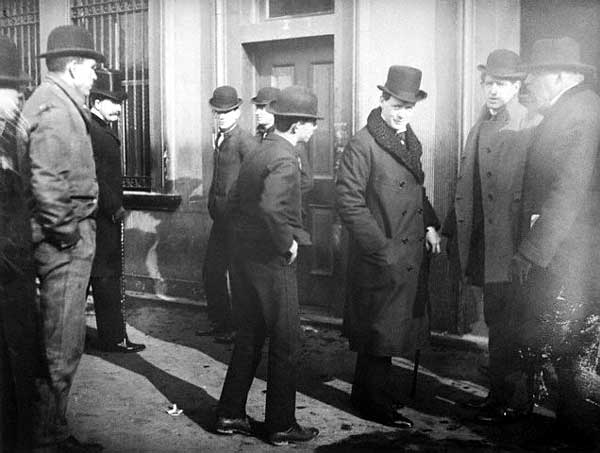 Winston Churchill, as the British Colonial Secretary, in Ottoman Damascus, 1912